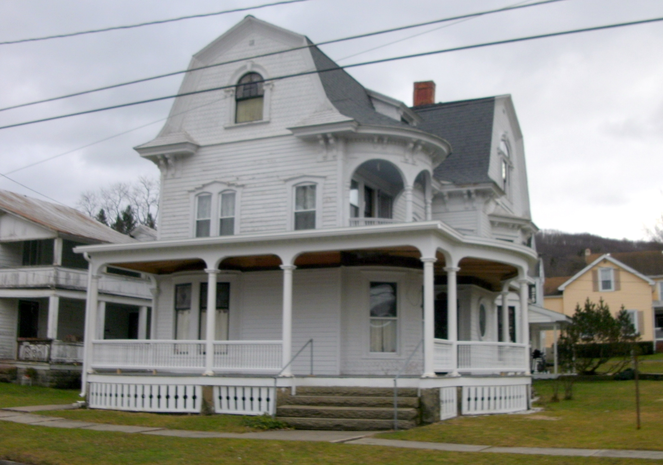 GE DIGITAL CAMERA South Otselic, New York